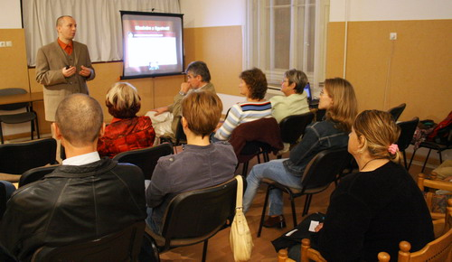 Tasi István (Īśvara-Kŗşņa dāsa), cultural anthropologist, Vaishnava theologian (ISKCON). Presenting his ideas about intelligent design.